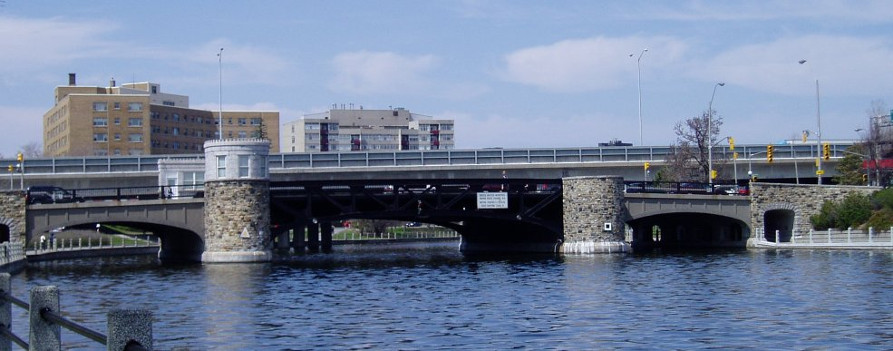 Photo of the Pretoria Bridge (a lift bridge in Ottawa, Canada. It crosses the Rideau Canal linking the Glebe and Centretown to Old Ottawa East). Taken by SimonP in May 2005